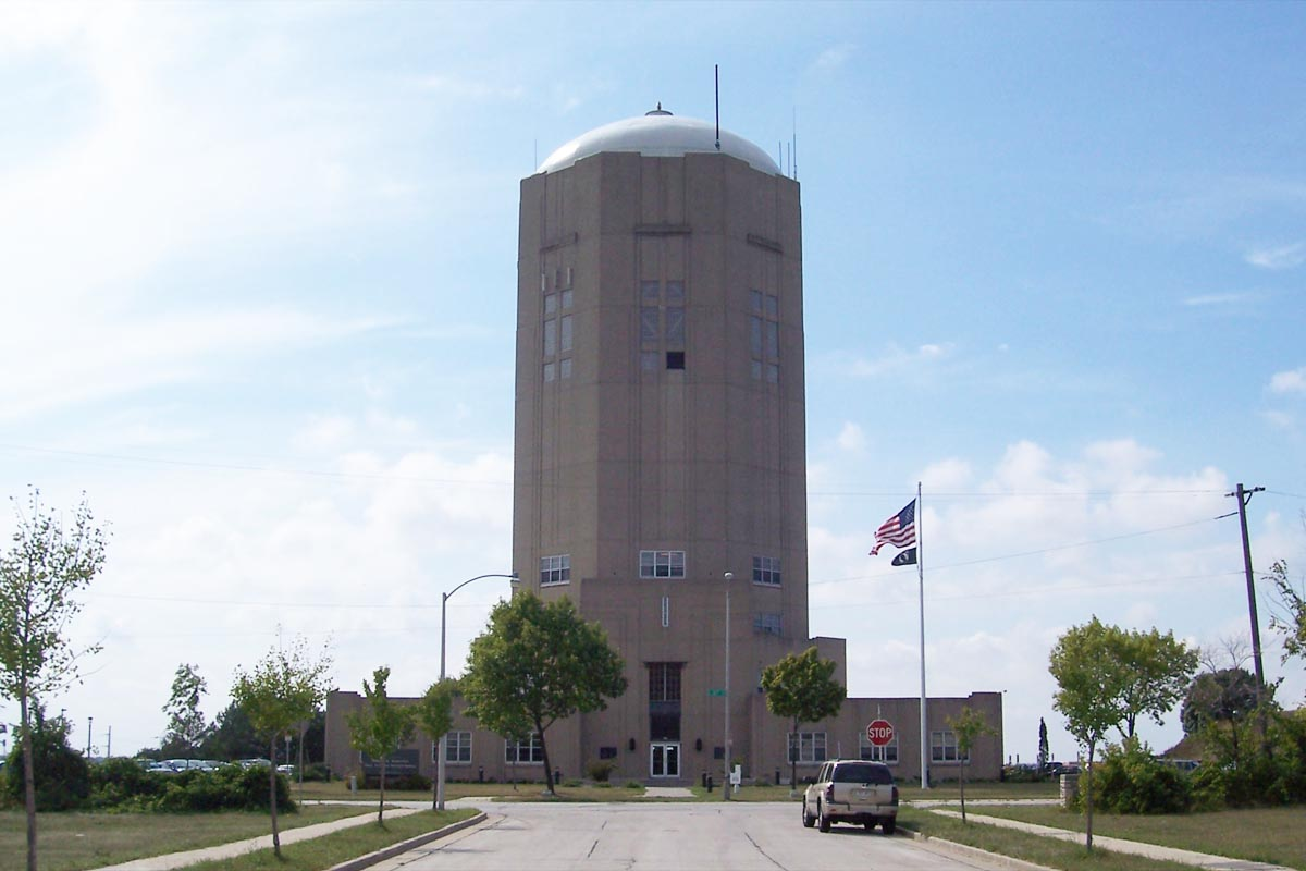 Once part of the Town of Lake, the Robert A. Anderson Municipal Building is an Art Deco landmark on the far south side of Milwaukee, Wisconsin.